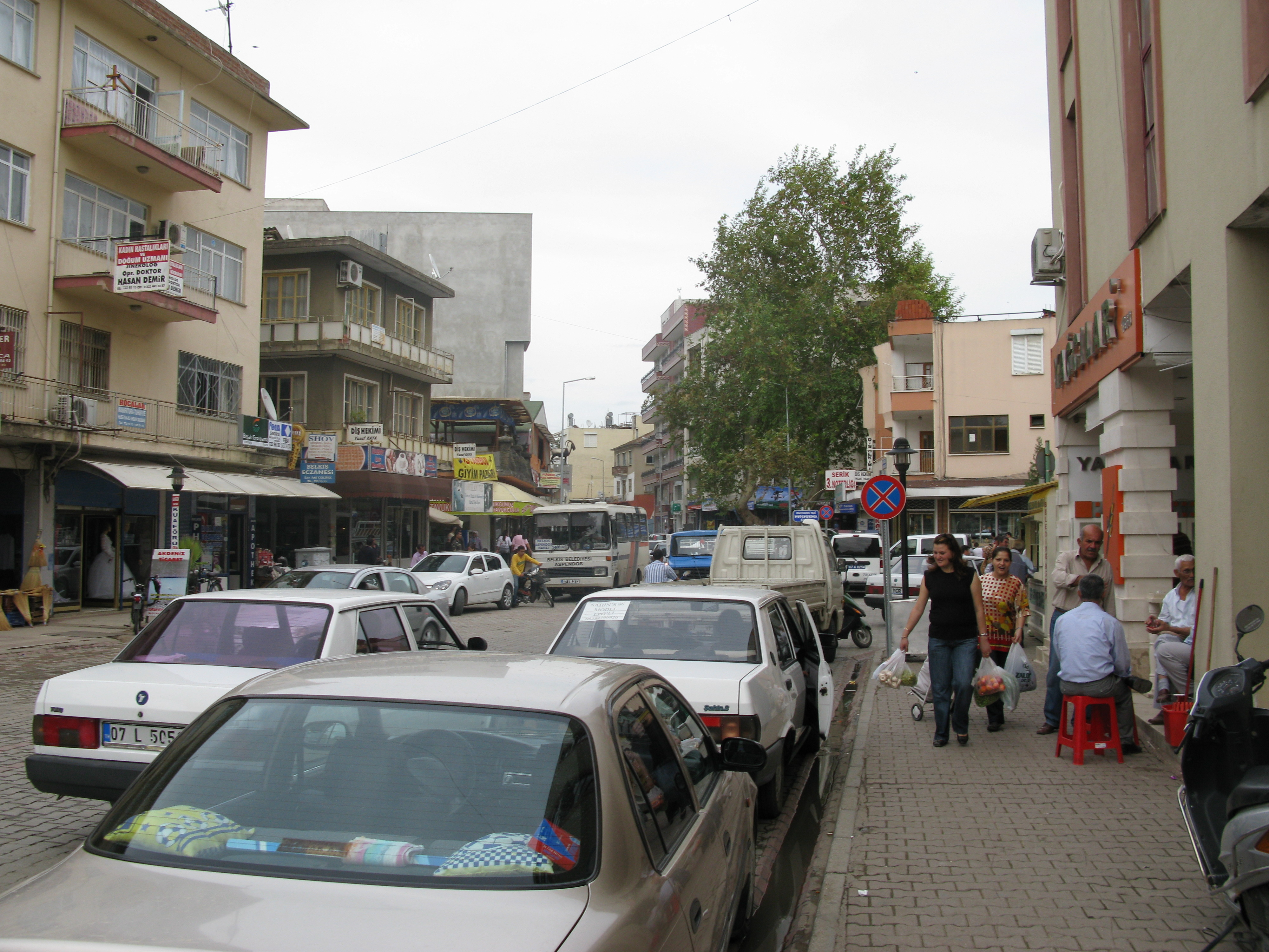 Road next to the city centre in Serik, Turkey.